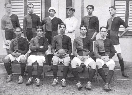 The first team of Flamengo in 1912, before playing a match v. Paysandú of Rio do Janeiro. From left to right: (standing): Lawrence, Amarante, Píndaro, Baena, Nery, Gallo. (seated): Curiol, Arnaldo, Zé Pedro, Miguel, Borgerth (who also created the football section of the club).